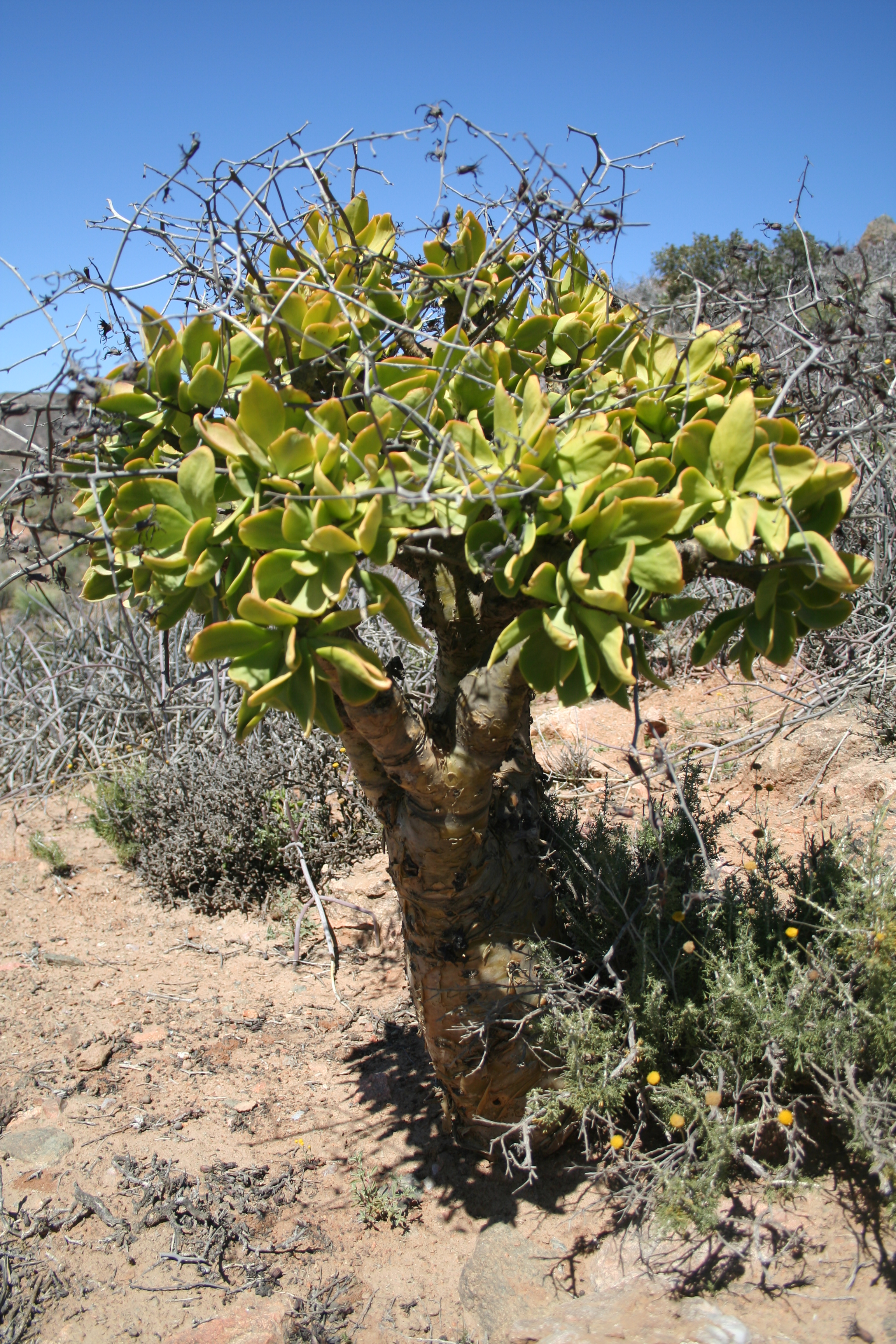 Tylecodon paniculatus, Richtersveld, South AFrica